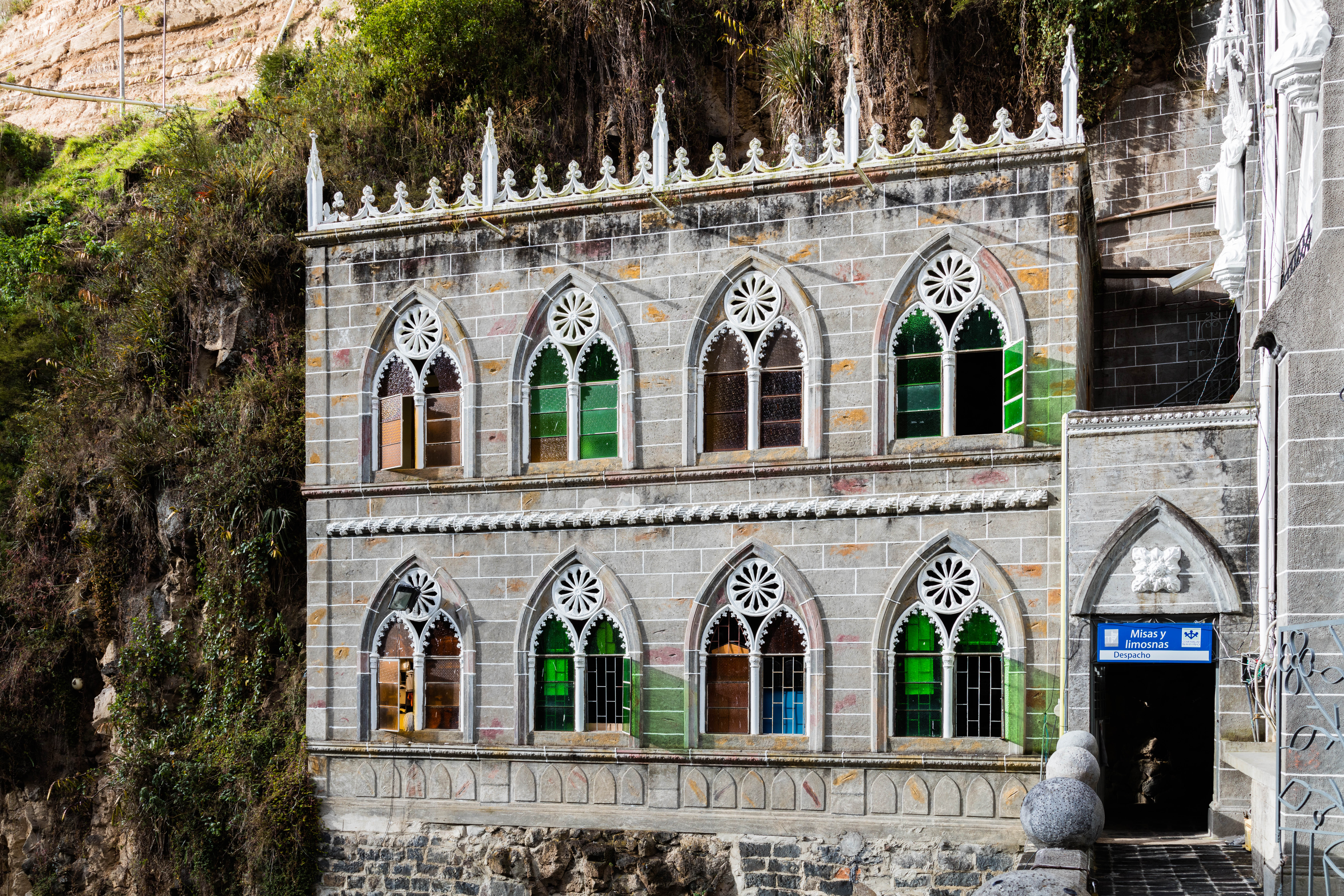 Sanctuary of Las Lajas, Ipiales, Colombia